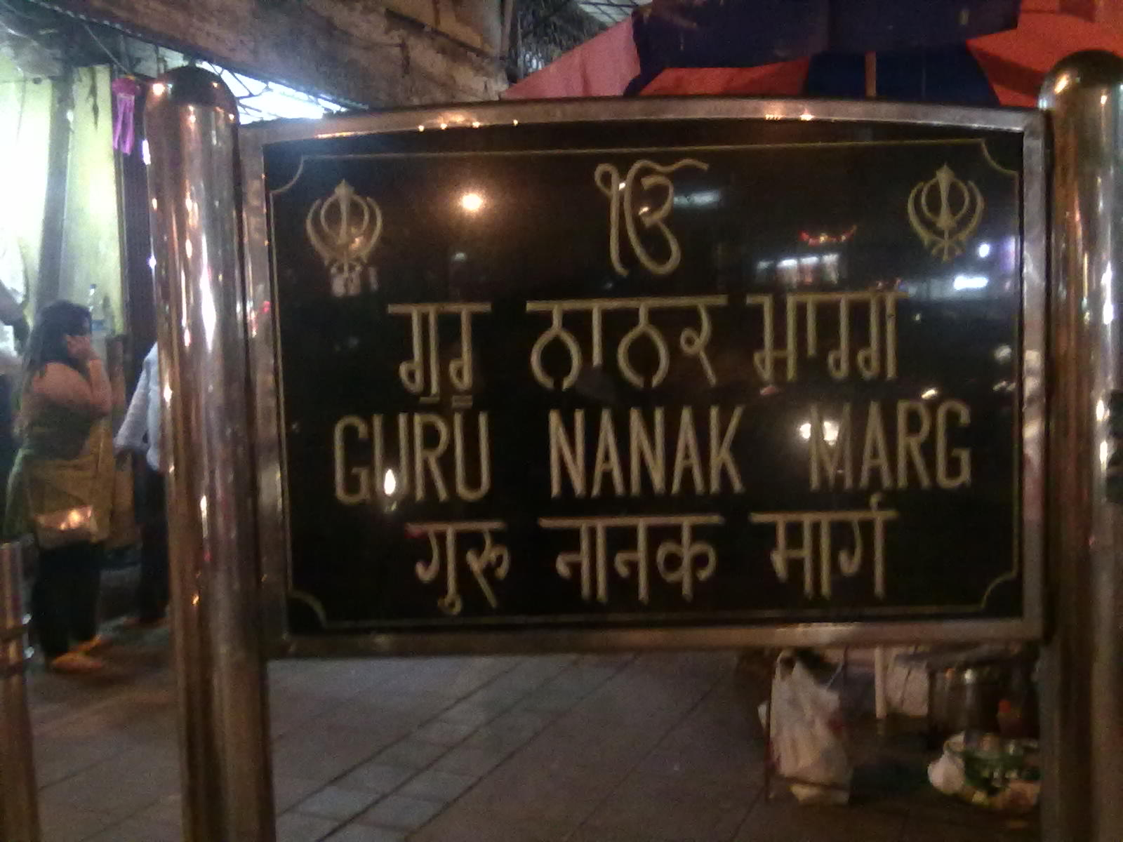 Guru Nanak Marg, City Light Market, Matunga